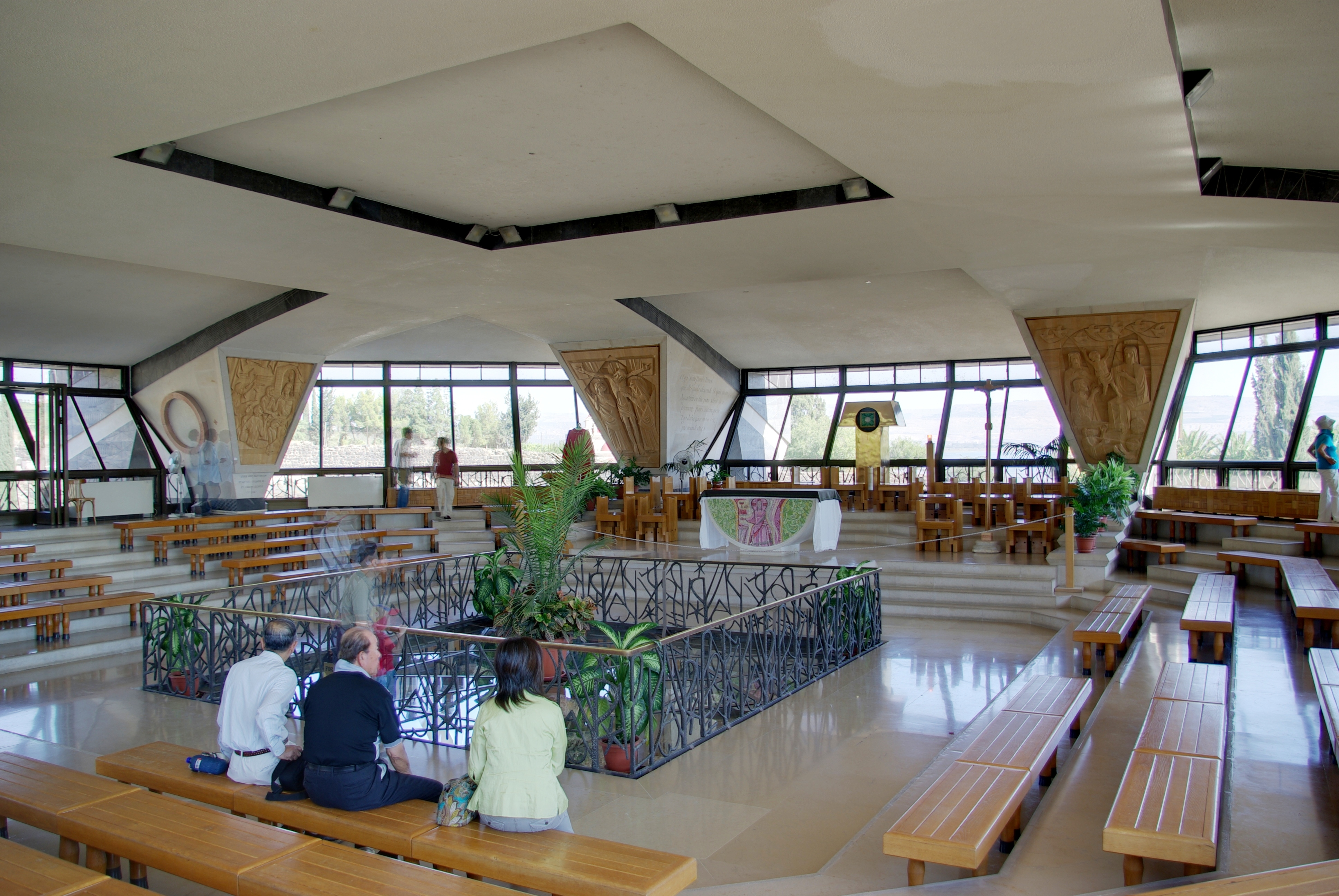 Church over the house of Petrus